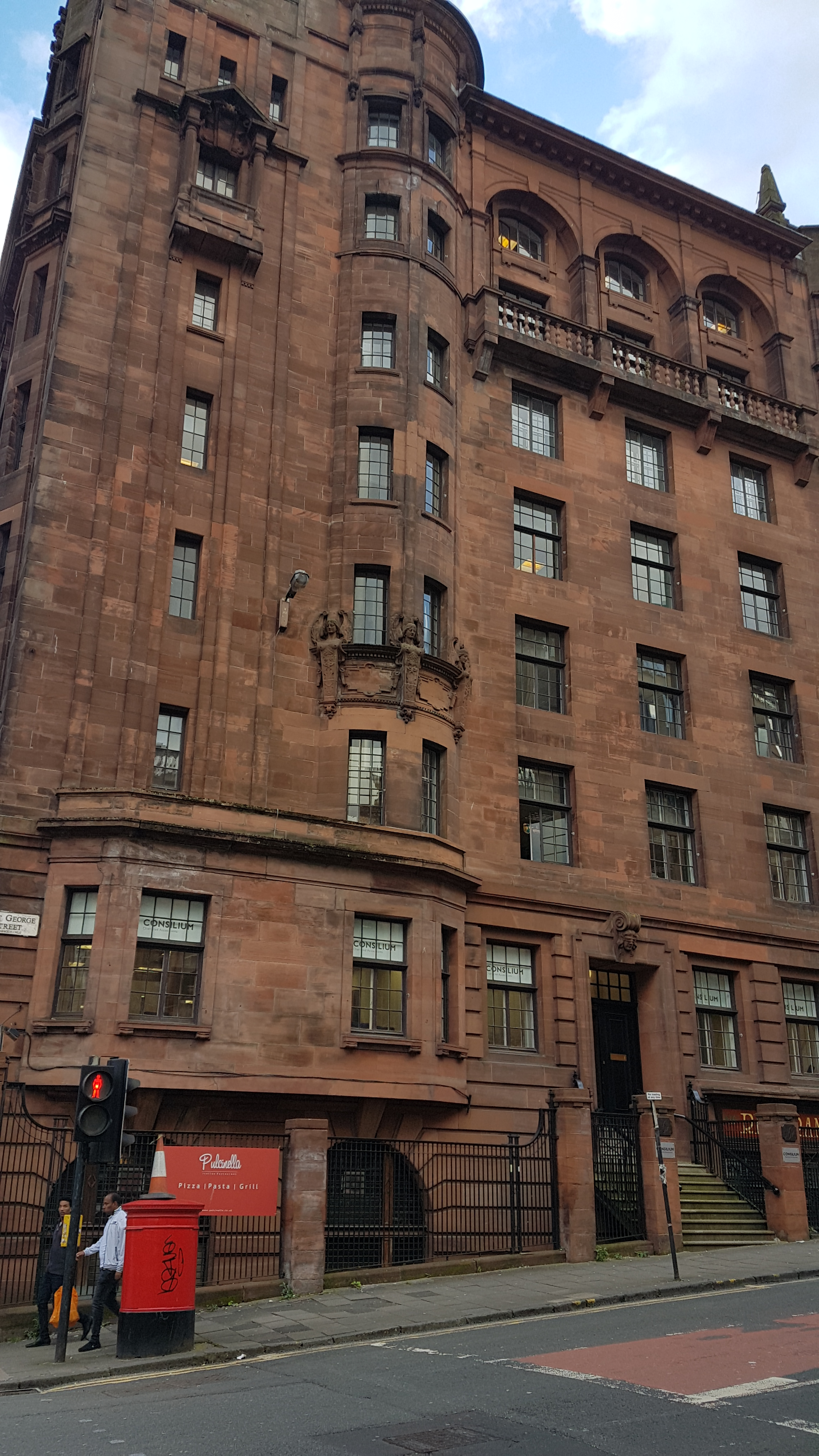 157-167 Hope Street Wikidata has entry Q17568369 with data related to this item.